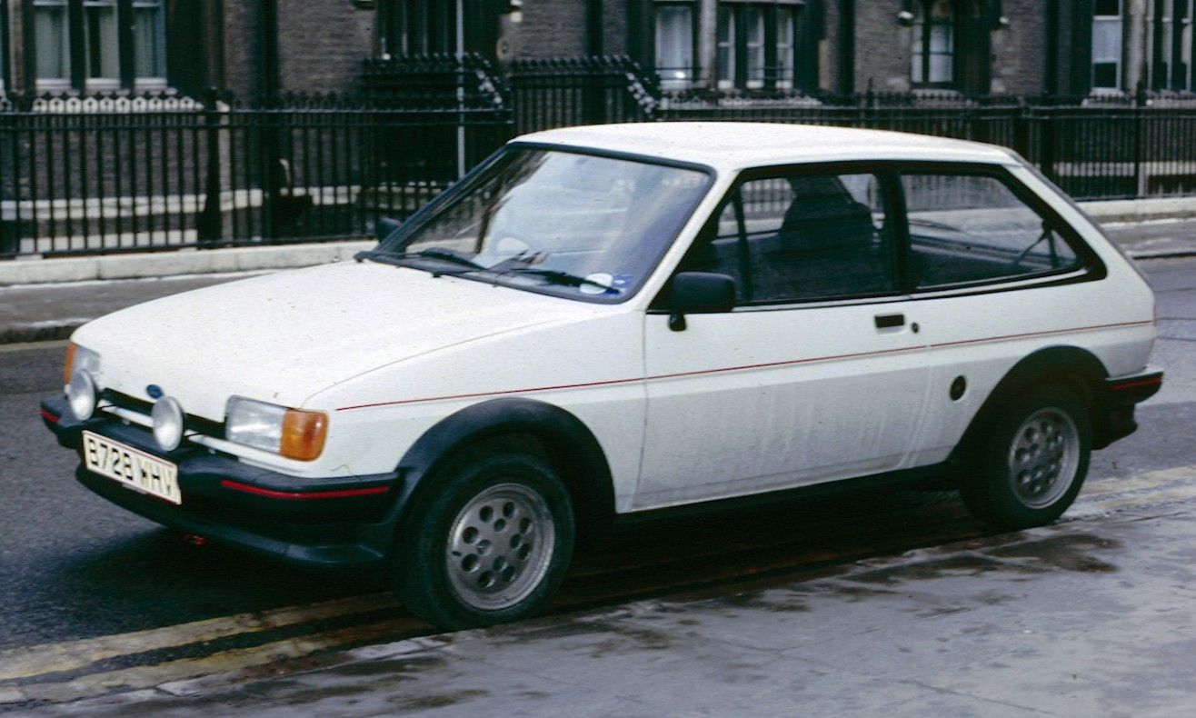 Ford Fiesta 2 XR2 in Cambridge, England